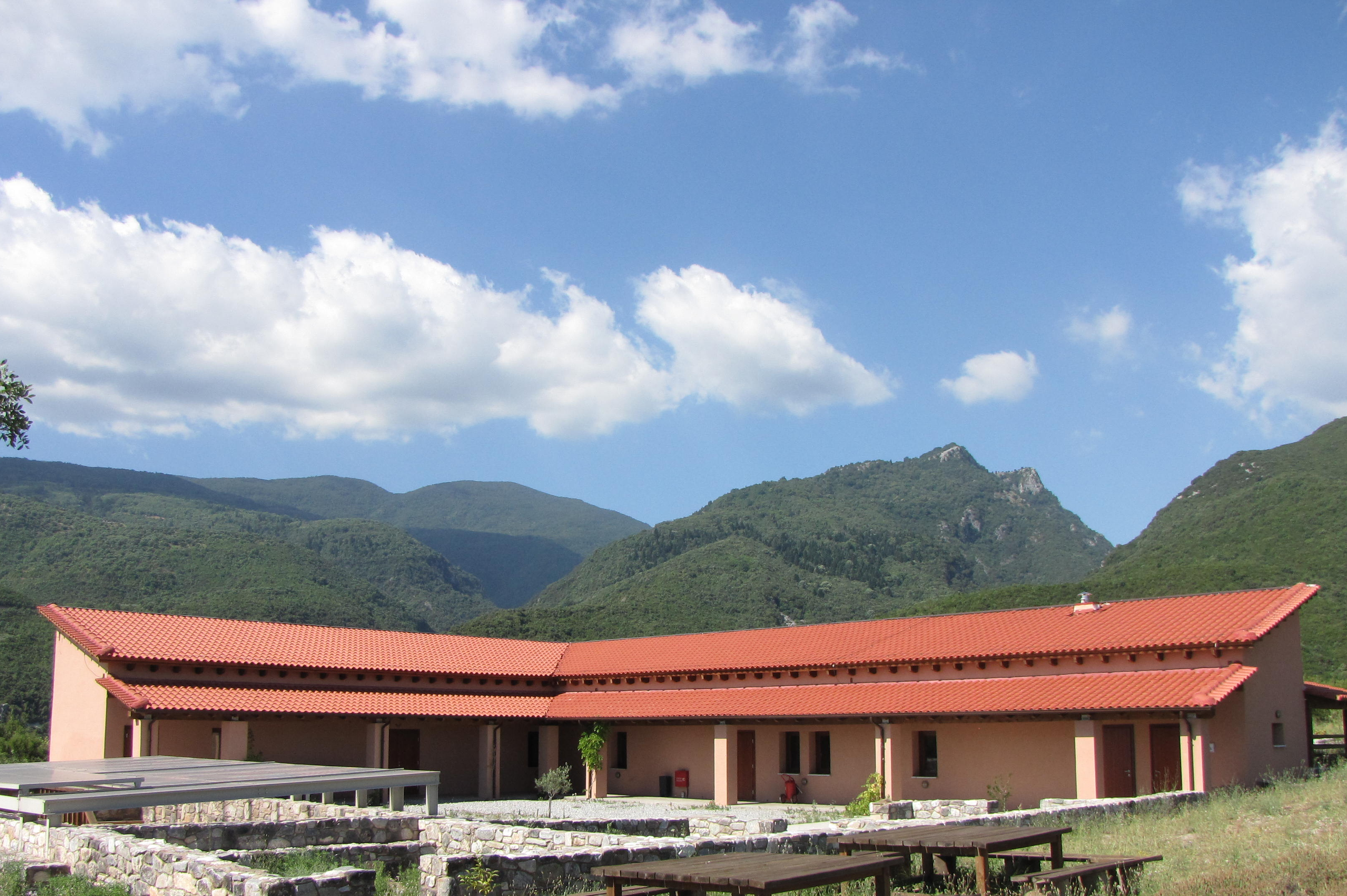 Leivithra Park